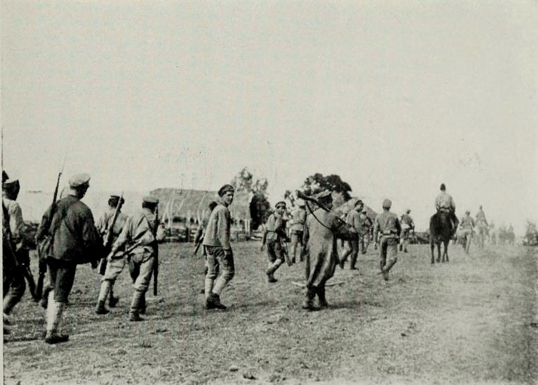 Kolchack soldiers in retreat. June 1919. North of Ufa.